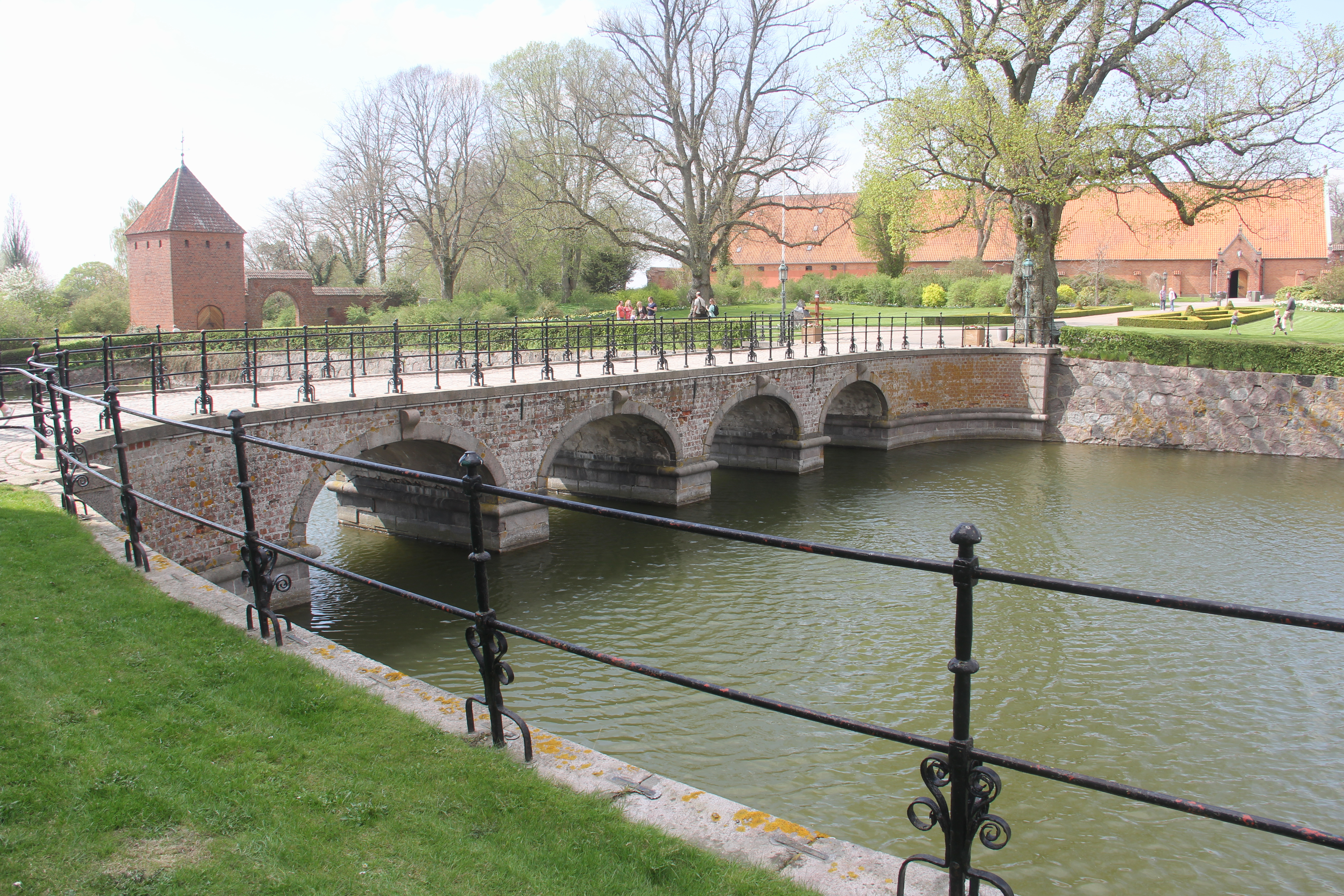 Gisselfeld Bridge